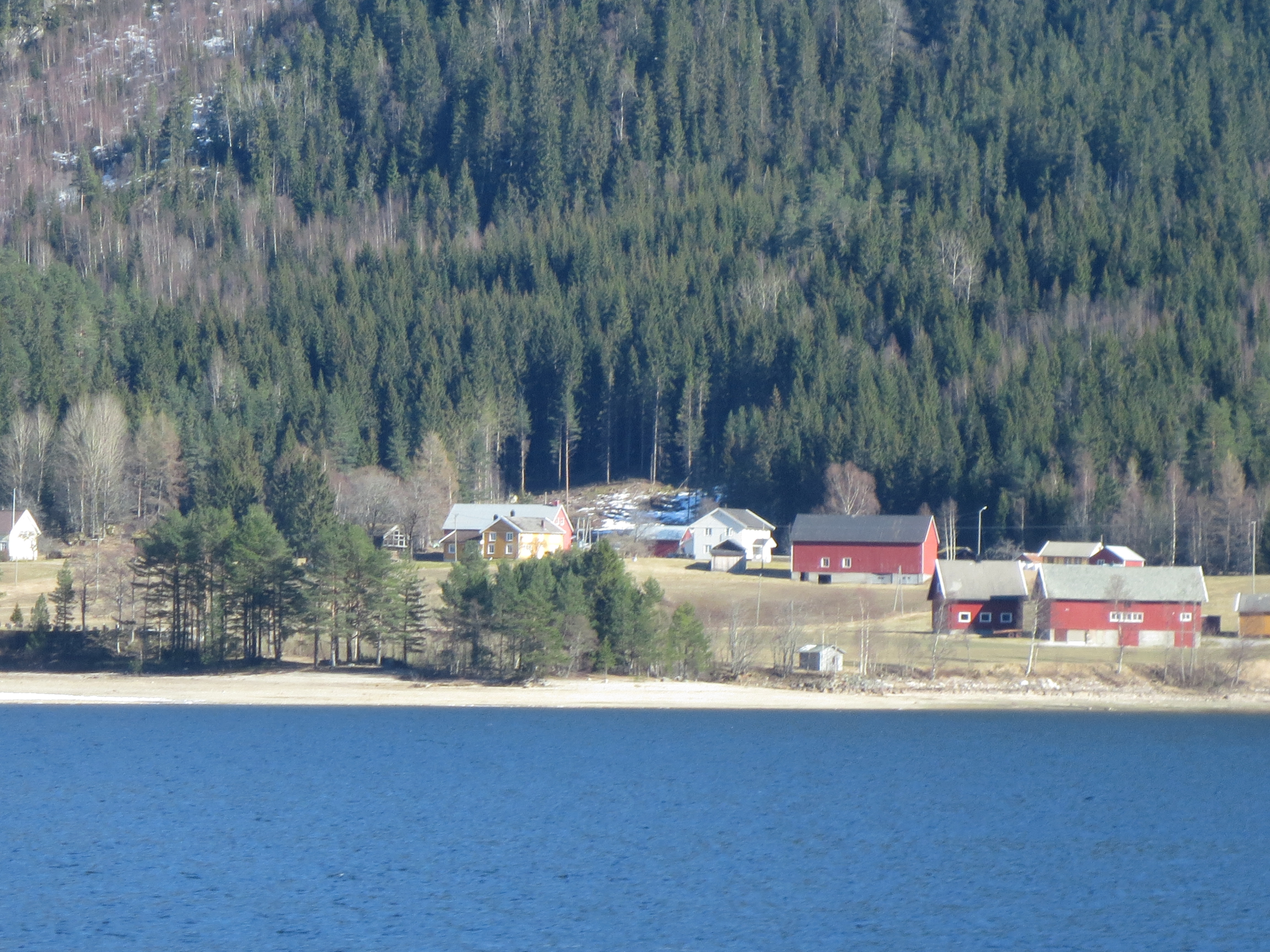 Image from the Sandnes.Haugå area, north of Ose township, Bygland municipality, Aust-Agder county, Norway